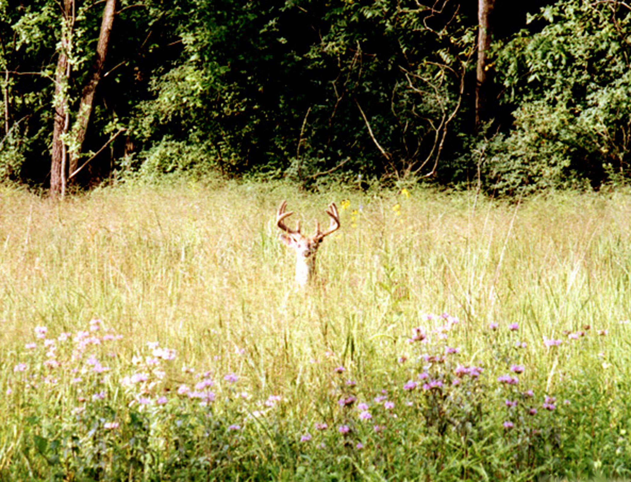 This is part of the natural praire at Hartman Reserve and a buck white-tailed deer (Odocoileus virginianus) is visible in the middle of it.